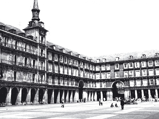 Plaza Mayor. Madrid, Spain.